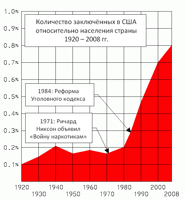 Graph demonstrating the incarcerated population relative to the general population.